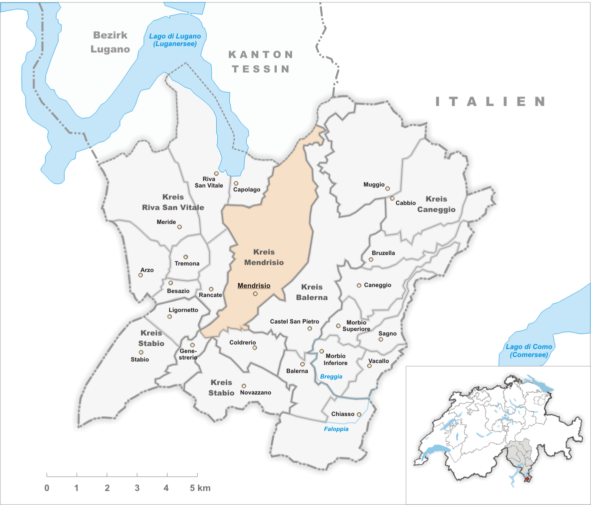 Municipality Mendrisio